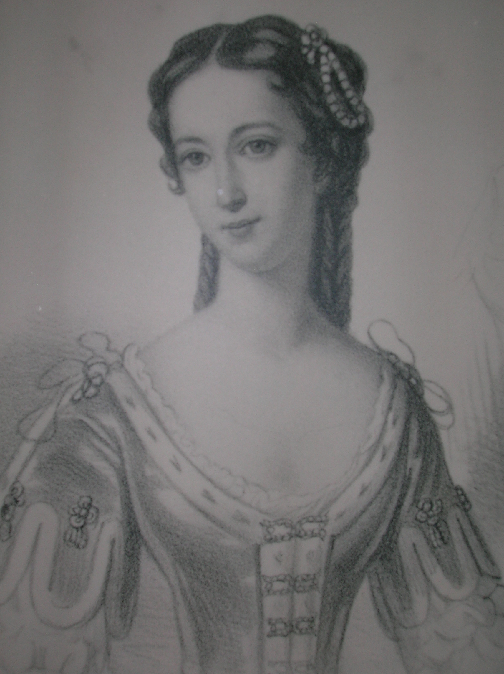 A print of Lady Susanna Montgomery, Countess of Eglinton. Lived 1690 - 1780.